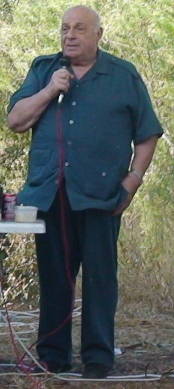 Rauf Raif Denktaş, the first president of the Turkish Republic of Northern Cyprus.